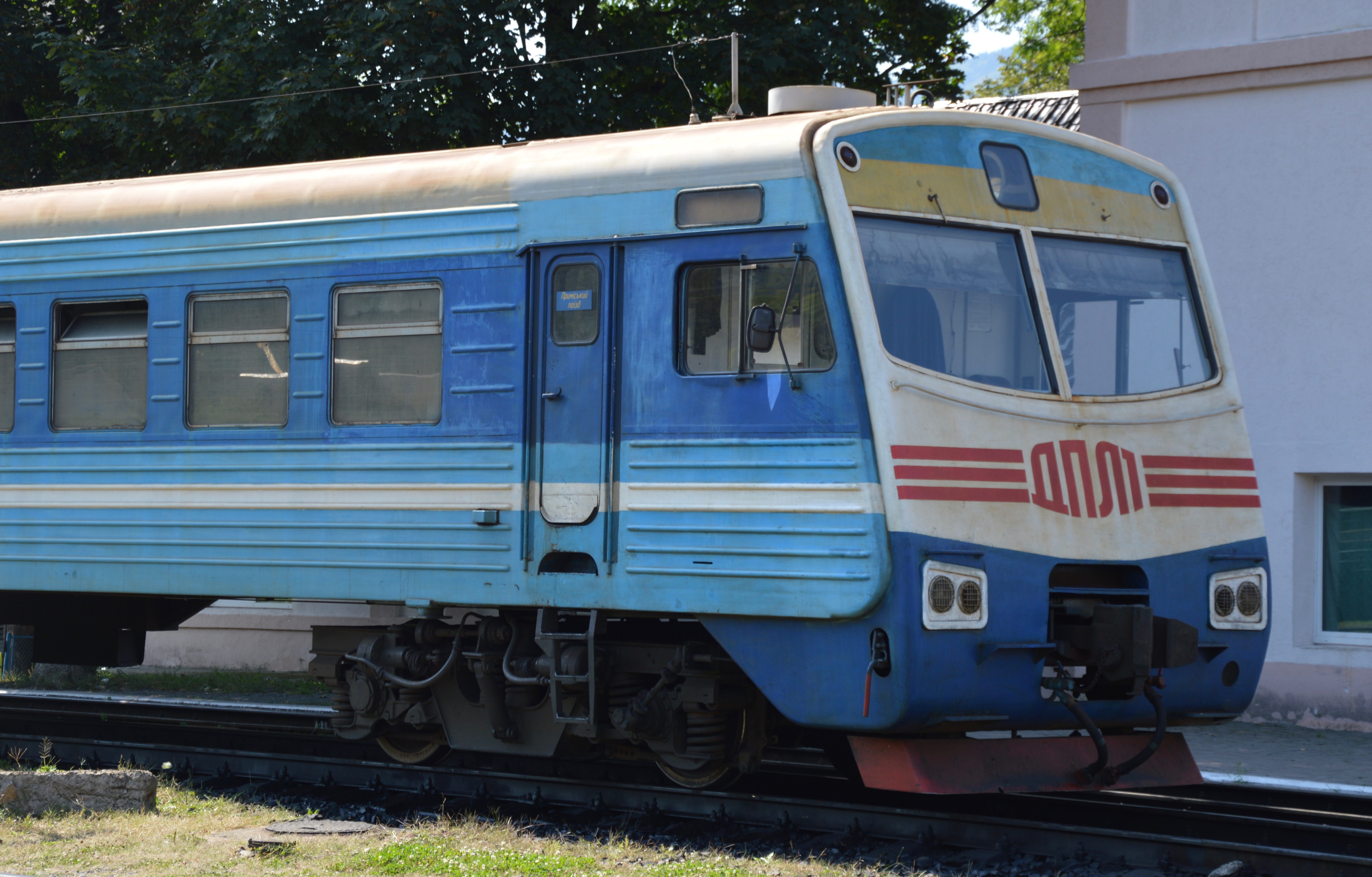 DPL1-006 diesel multiple unit at Rakhiv railway station (Ukraine)